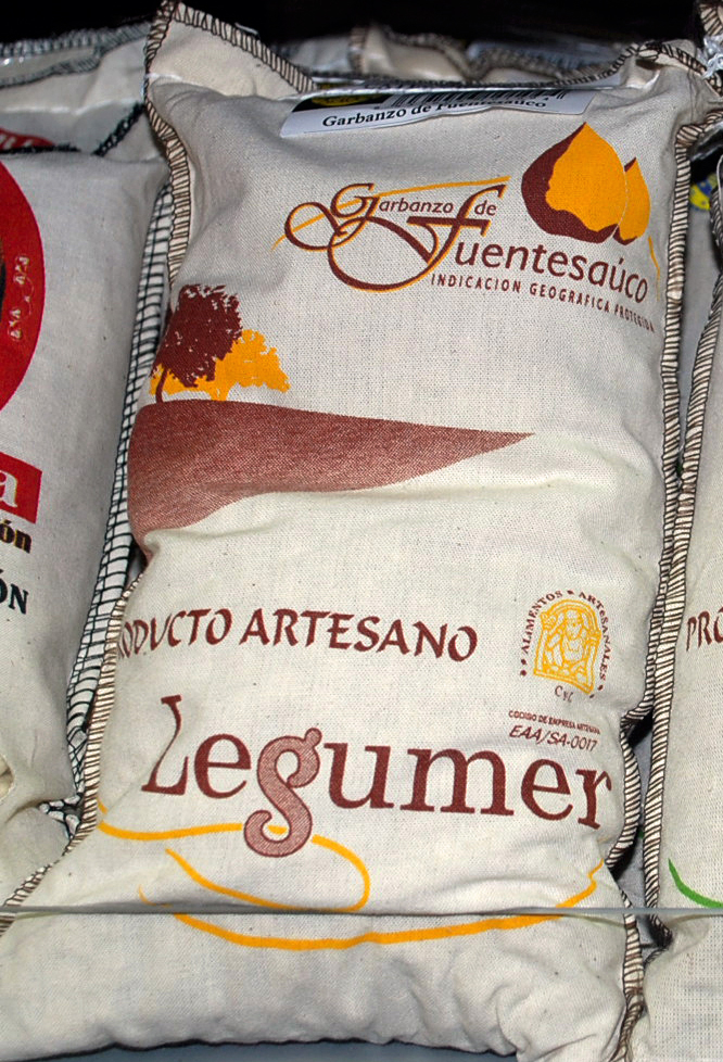 Chickpeas of Fuentesaúco (Zamora, Castile and León).